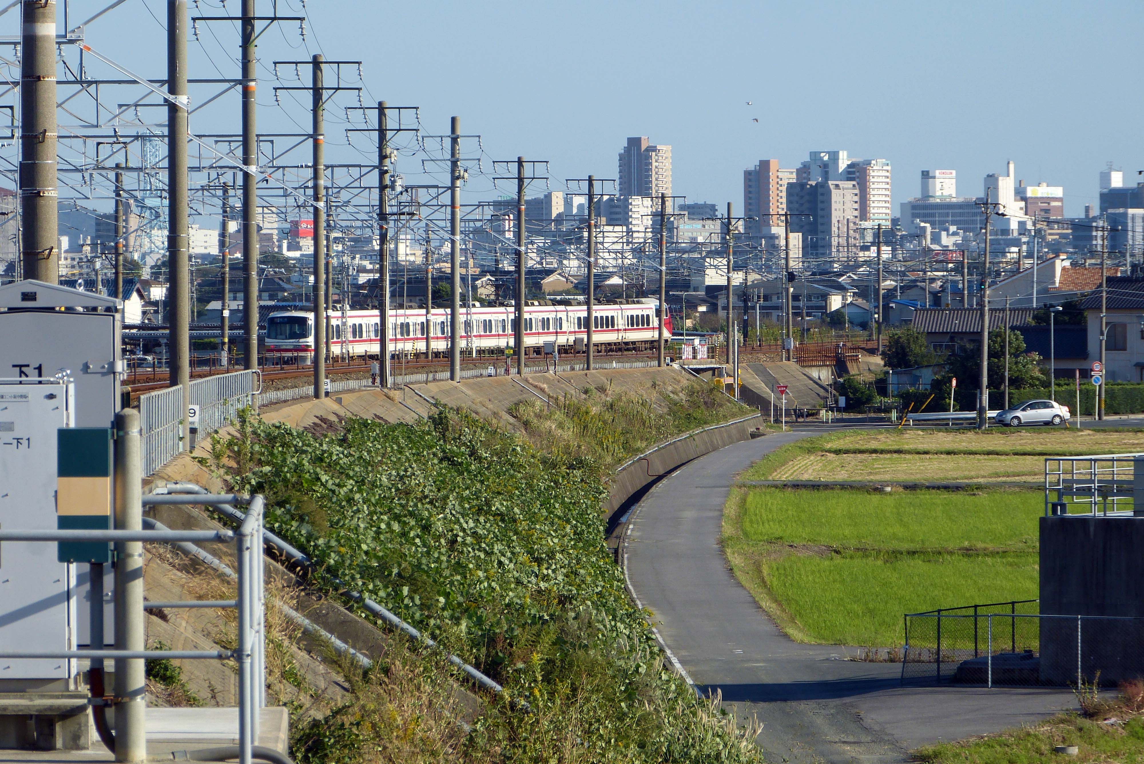 Train go into the city